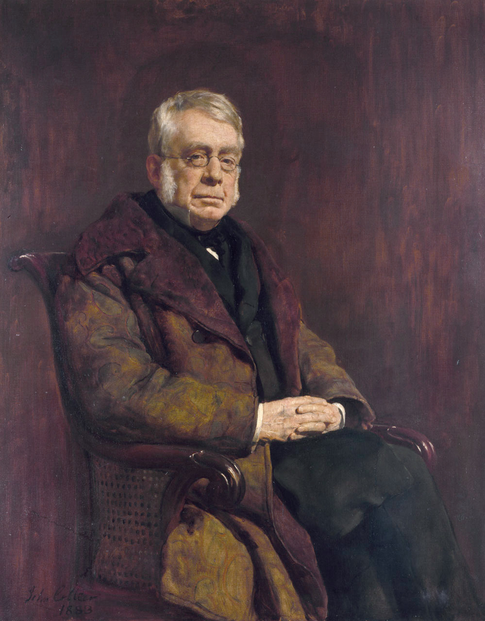 George Biddell Airy (1801-1892) oil on canvas 127 x 101.5 cm signed b.l.: John Collier / 1883